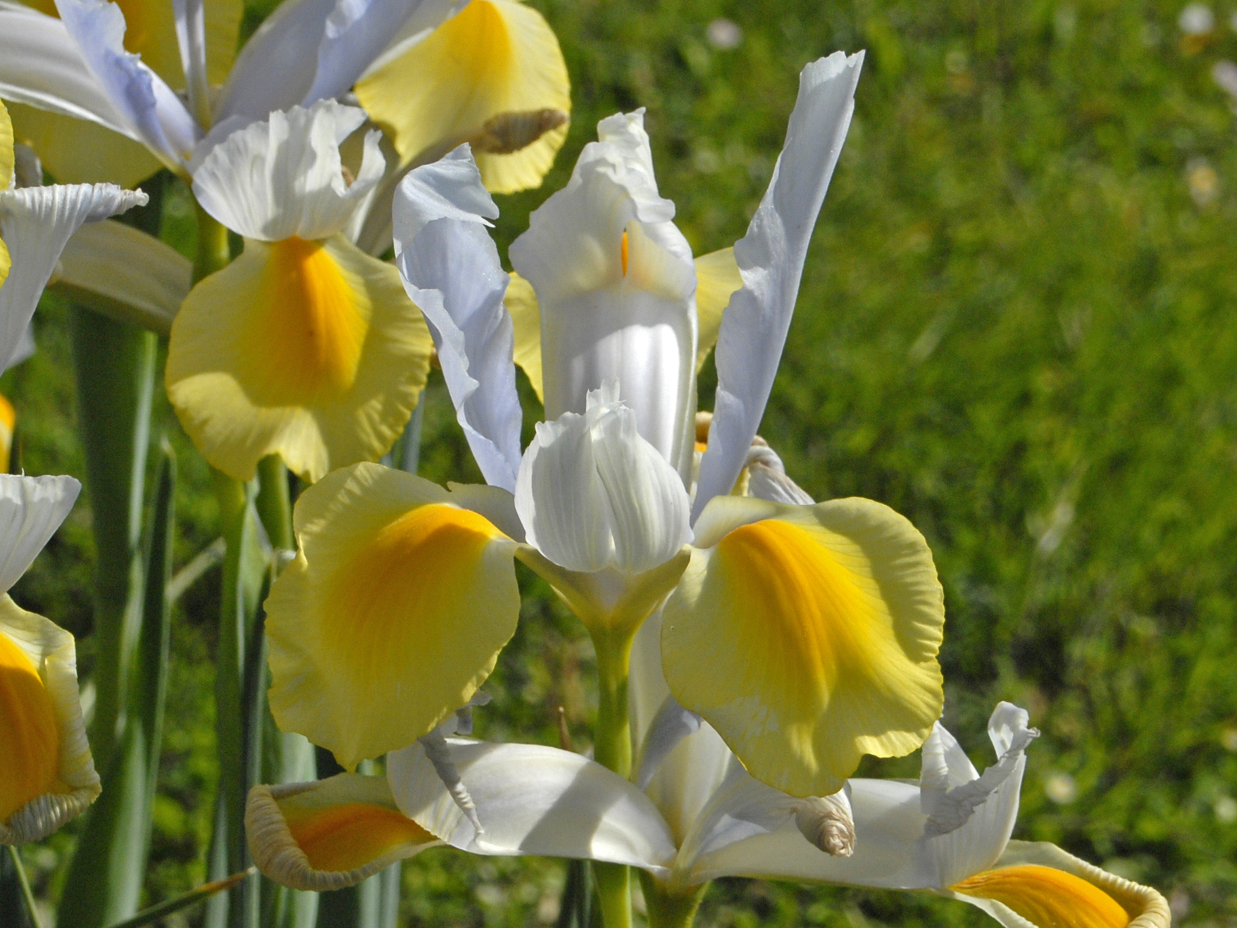 Iris x hollandia at the Jardin des Plantes, Paris